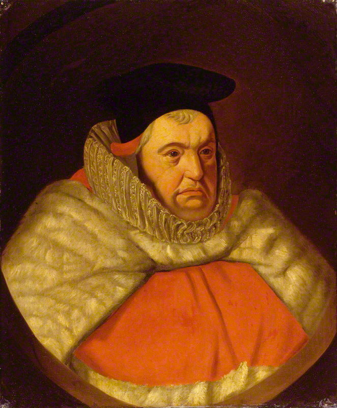 A painted portrait of Sir John Doddridge (1555–1628), an English lawyer who was appointed Justice of the King's Bench in 1612 and served as Member of Parliament for Barnstaple in 1589 and for Horsham in 1604. (The oval shape of the portrait is feigned.)